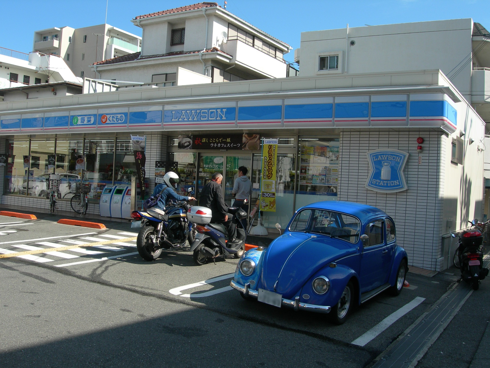 Volkswagen Beetle and Lawson Sakurazuka shop (First store in Japan), Toyonaka, Osaka.